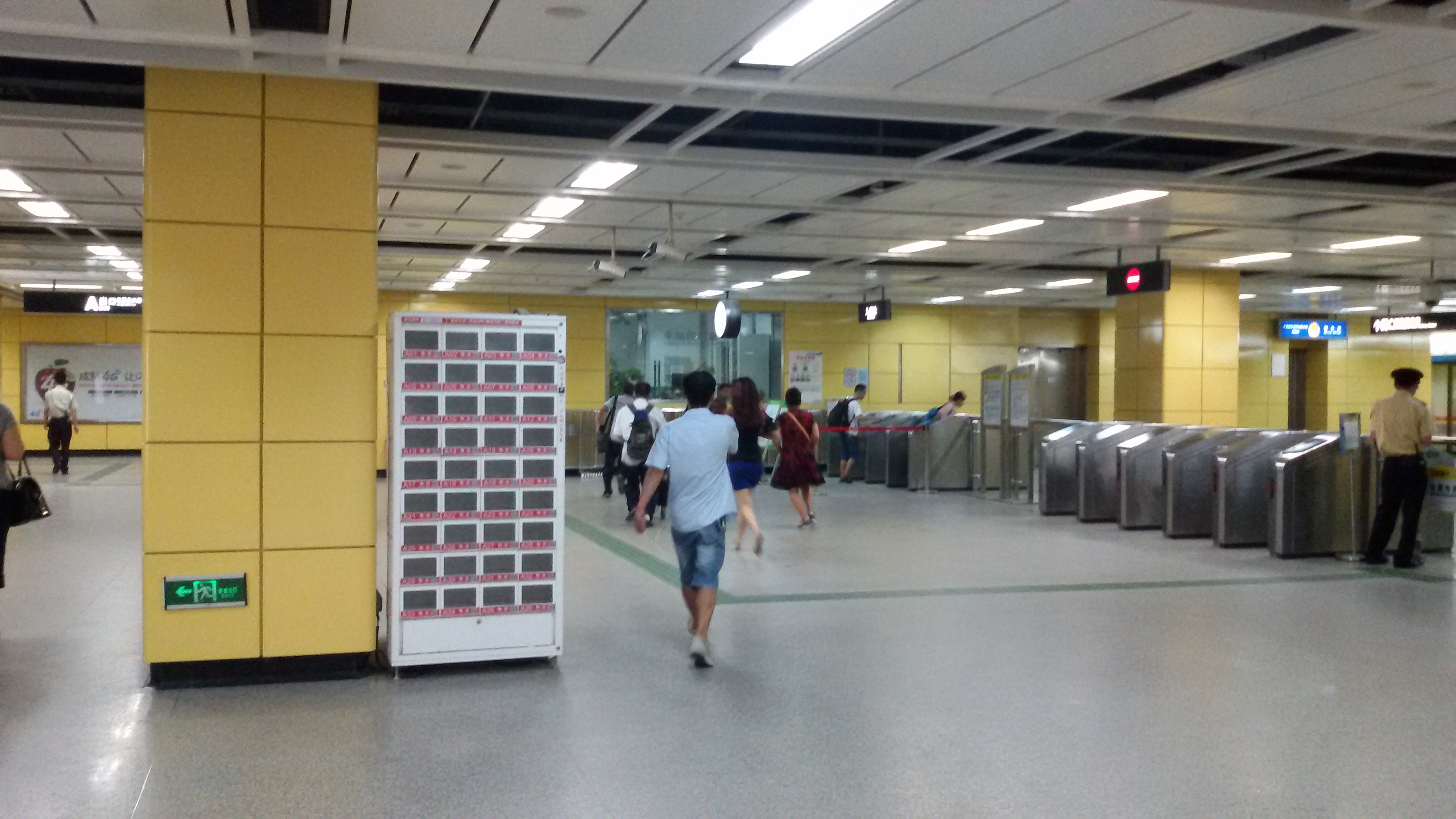 Station Concourse for Jiangxia Station in Guangzhou Metro 粵語: 廣州地鐵，江夏站嘅站廳。